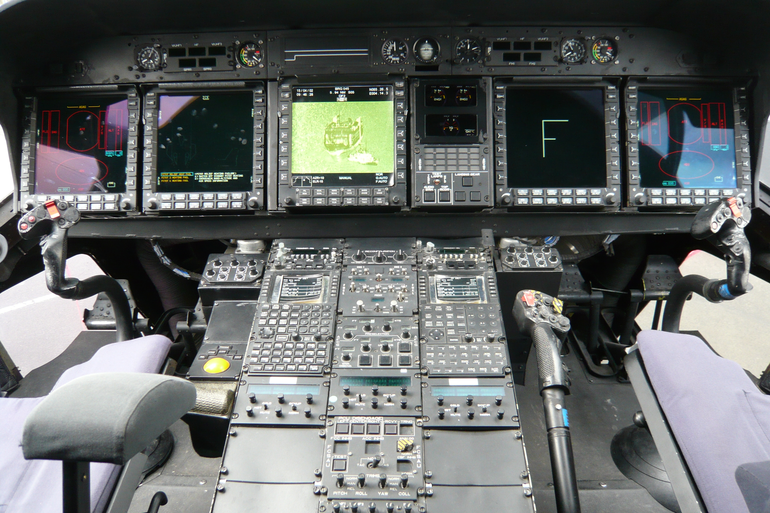 NHI NH90 helicopter cockpit